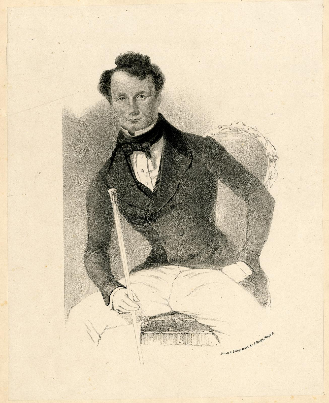 Portrait of the actor; three-quarter length, seated, holding cane, leanign forwards slightly, looking at viewer. Lithograph on chine collé